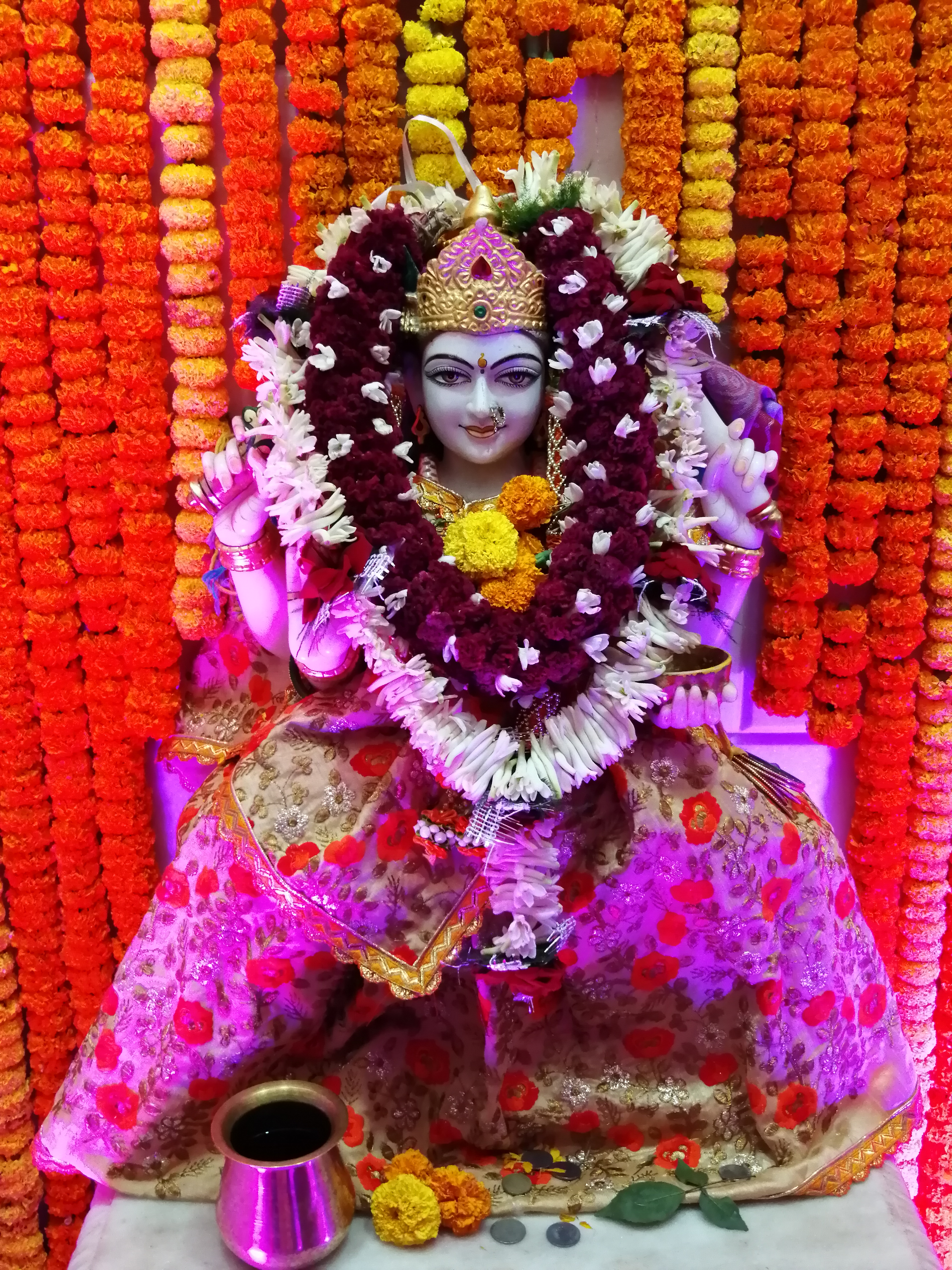 Santoshi Mata 01.01.2019